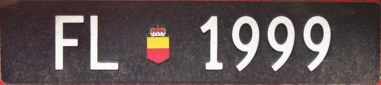 Liechtenstein license plate for trailers. Numbers from FL 300 to FL 1999 and from FL 65000 to ~ FL 67900 (May 2020). Long format 50 x 11 cm.